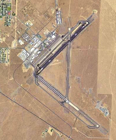 USGS digital orthophoto of Ephrata Municipal Airport in Washington